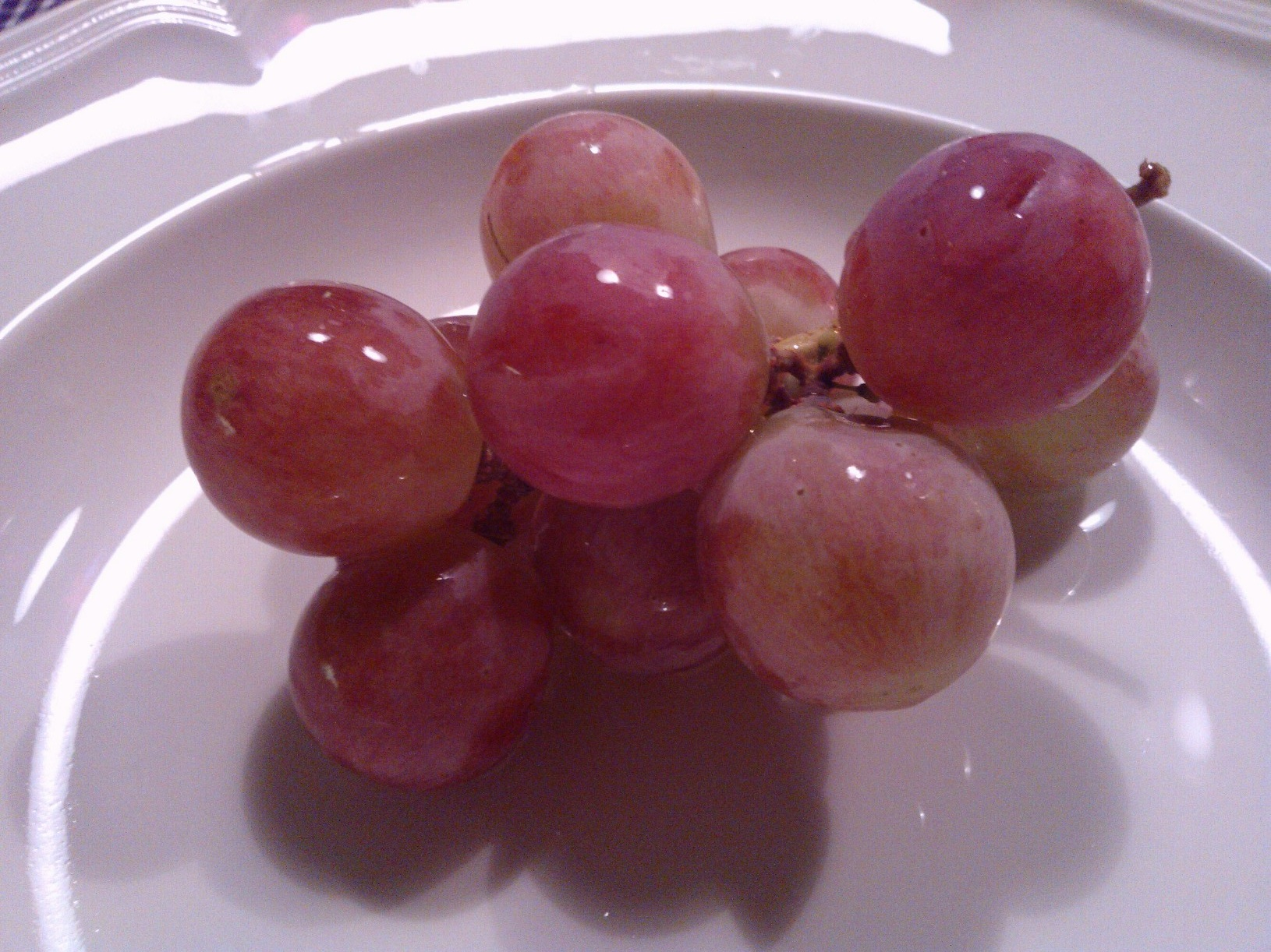 Some grapes of cultivar "Red Globe" on a plate